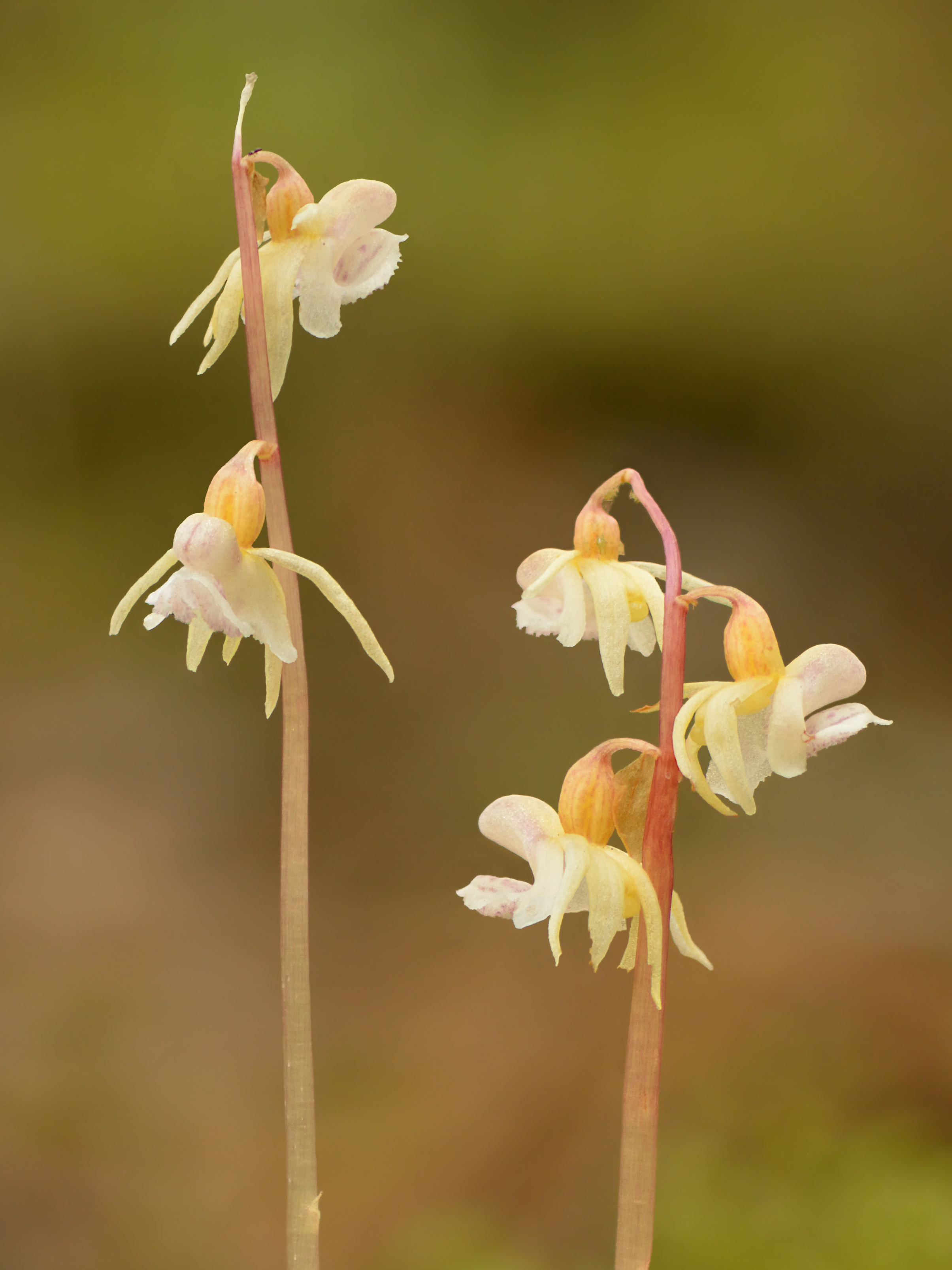 Ghost orchid. Flower size ca 20 mm